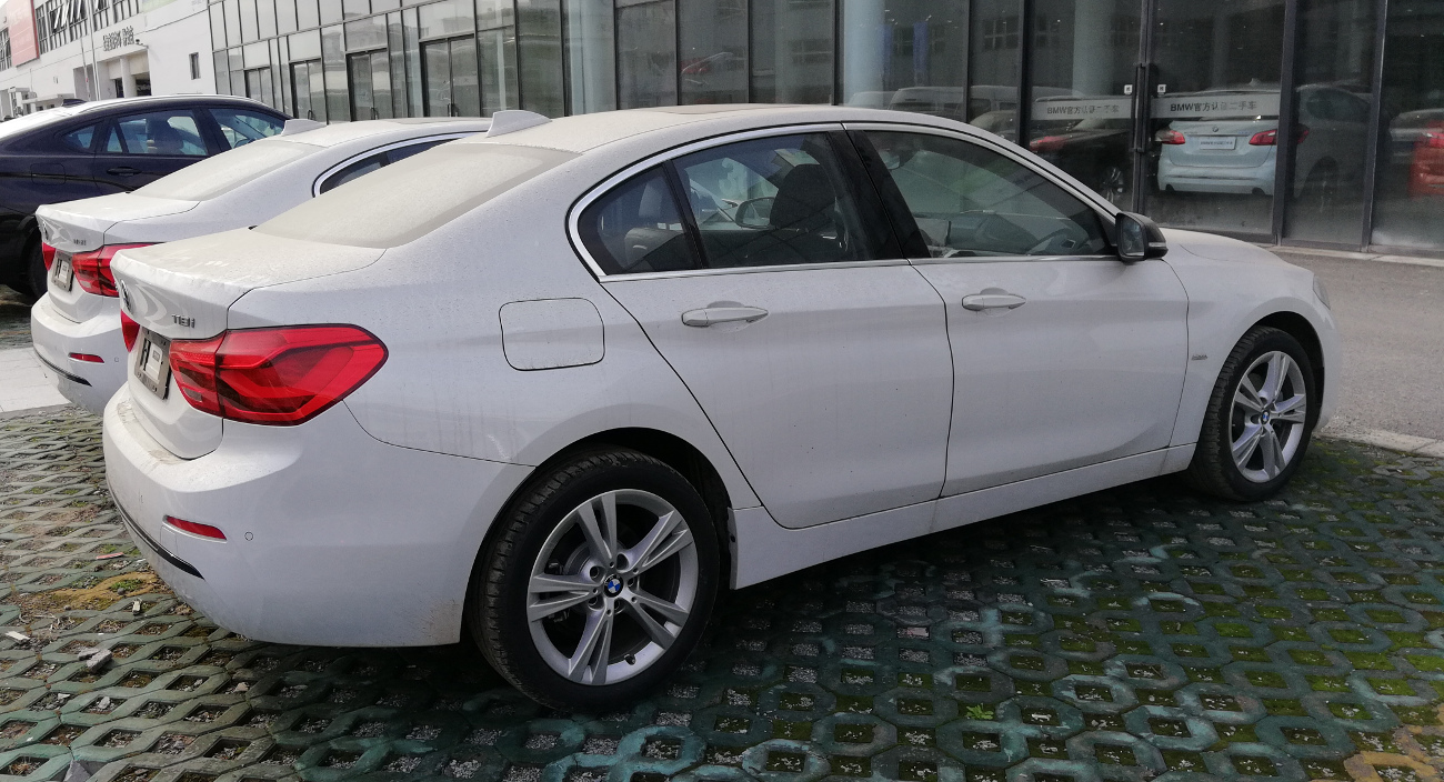 BMW 1-Series F52 photographed in Shanghai, China.